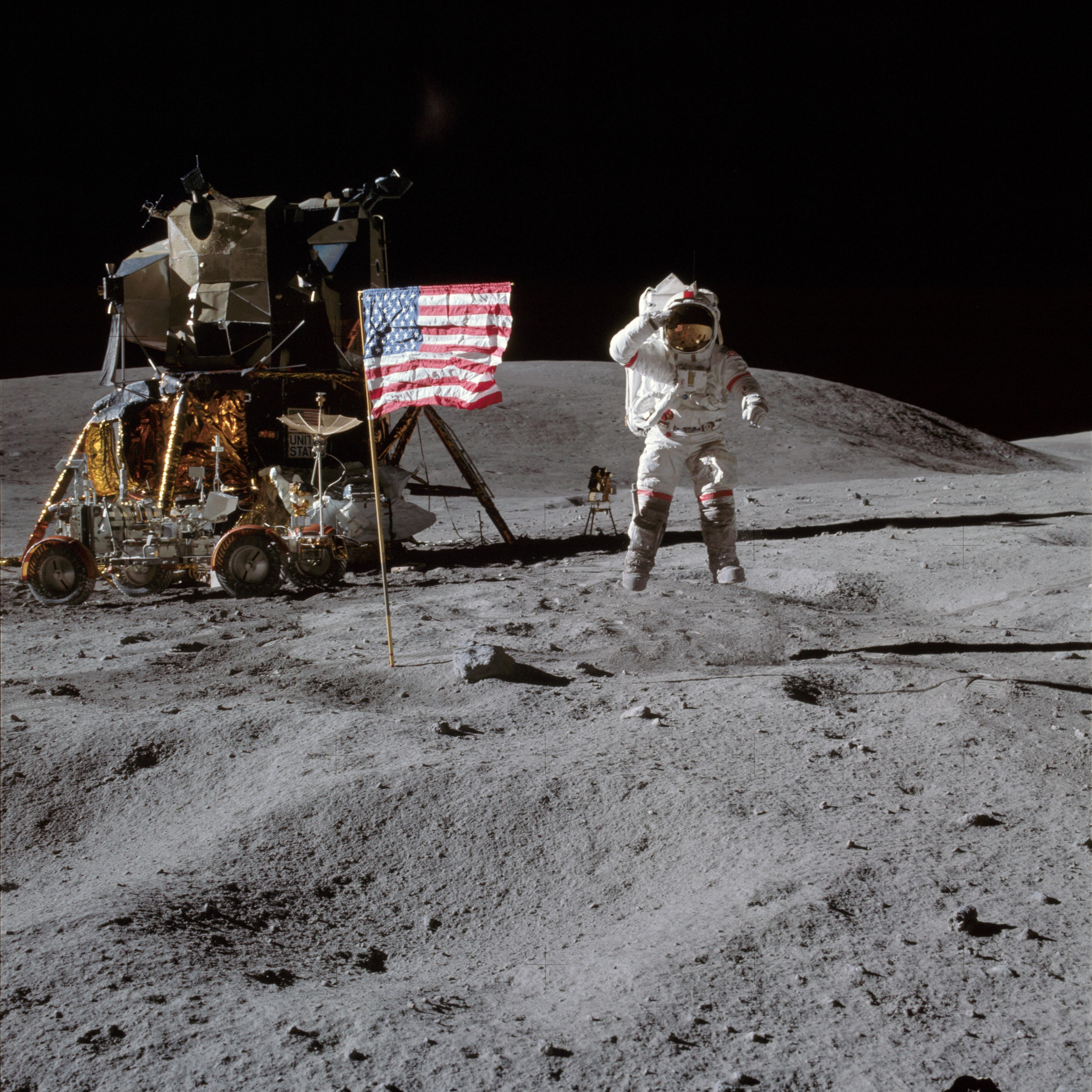 John W. Young on the Moon during Apollo 16 mission. Charles M. Duke Jr. took this picture. The LM Orion is on the left. April 21, 1972